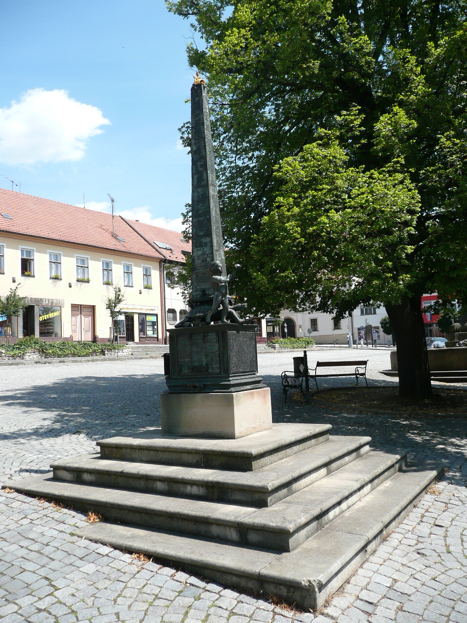 Comenius memorial monument in Uherský Brod, Czech Republic, project by czech sculptor Ivan Theimer.